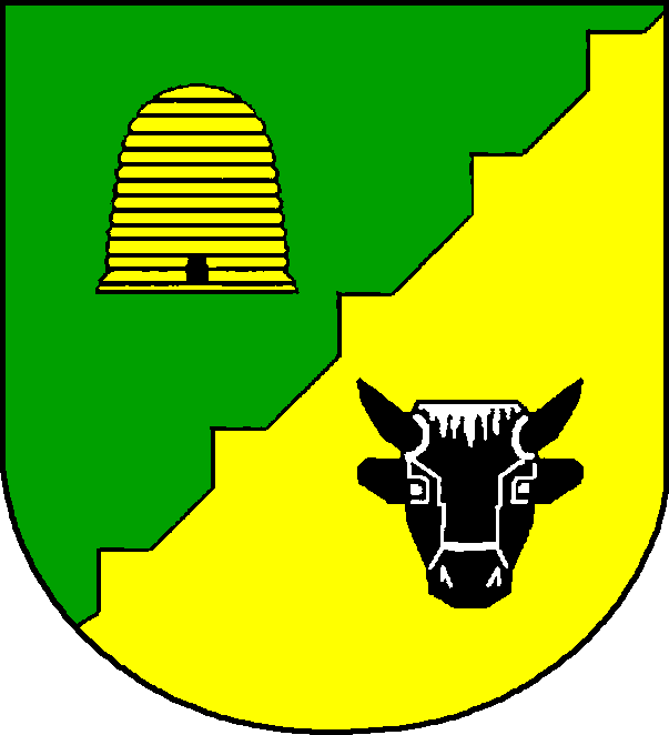 Coat of arms of the municipality Kolkerheide in Schleswig-Holstein, Germany.